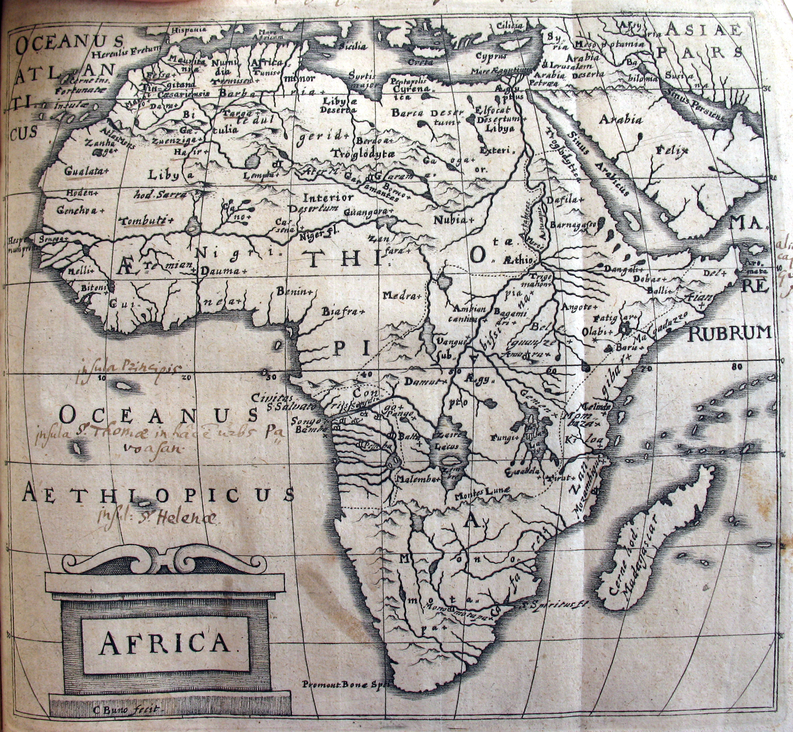 Map of Africa from "Introductionis in universam geographiam, tam veterem quam novam" by Philipp Cluver (1580-1623), who was a noted geographer of the early seventeenth century, Conrad Buno "C Buno fecit" engraver, Cluver’s Introductio, published by Gottfried Müller with Balthasar Gruber, or later Andreas Duncker as the printer